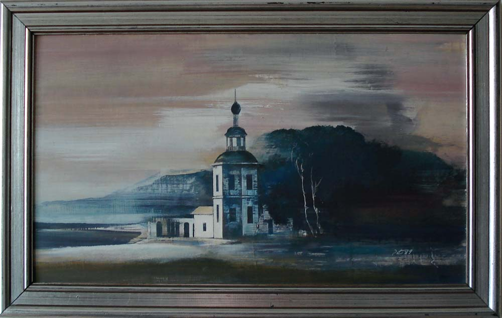 Russian landscape. János Pető (hungarian painter, 1989, oil, 37×64 cm) Own property